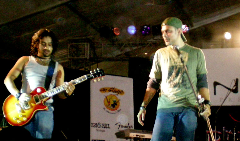 Dream Out Loud live in "East Wind Concert" in New Delhi, India